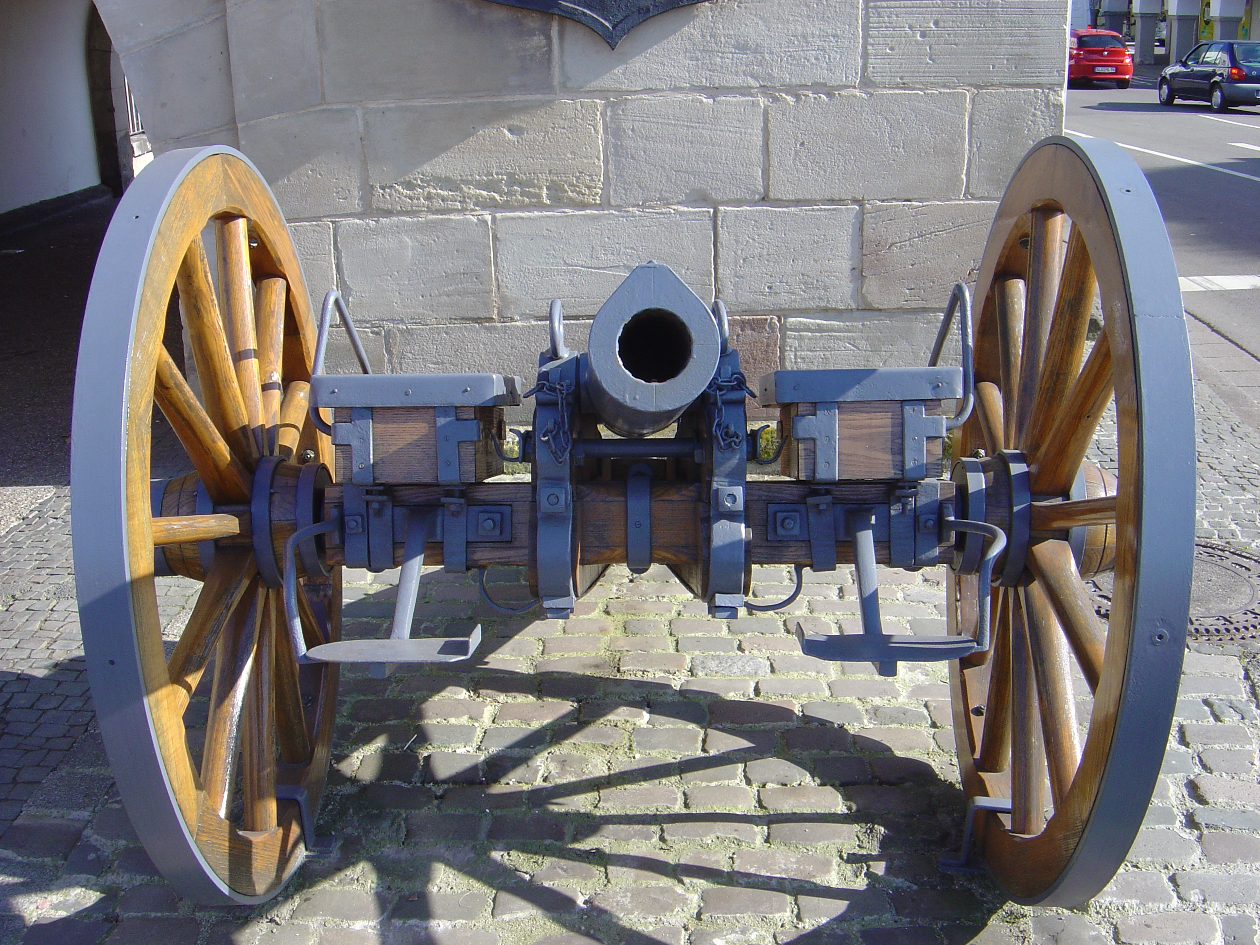 Krupp Artillery - C/61, Saarlouis, Germany, Deutsches Tor - German Entrance